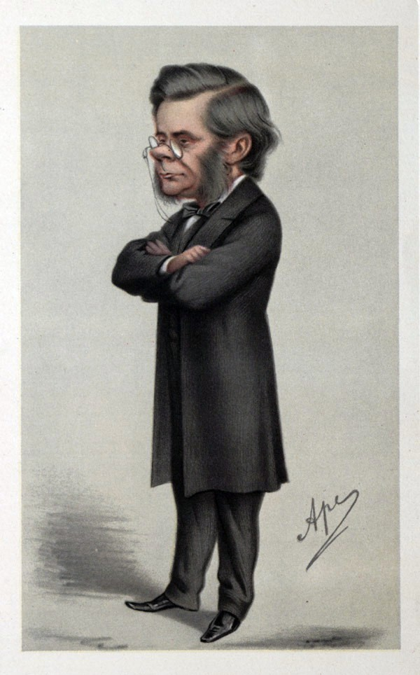 Caricature of Thomas Henry Huxley (1825 - 1895). Caption read "A great Med'cine-Man among the Inqui-ring Redskins".